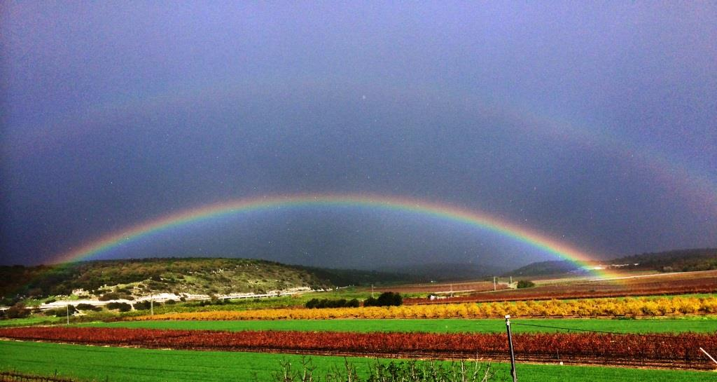 Israeli Rainbow, Geography of Israel